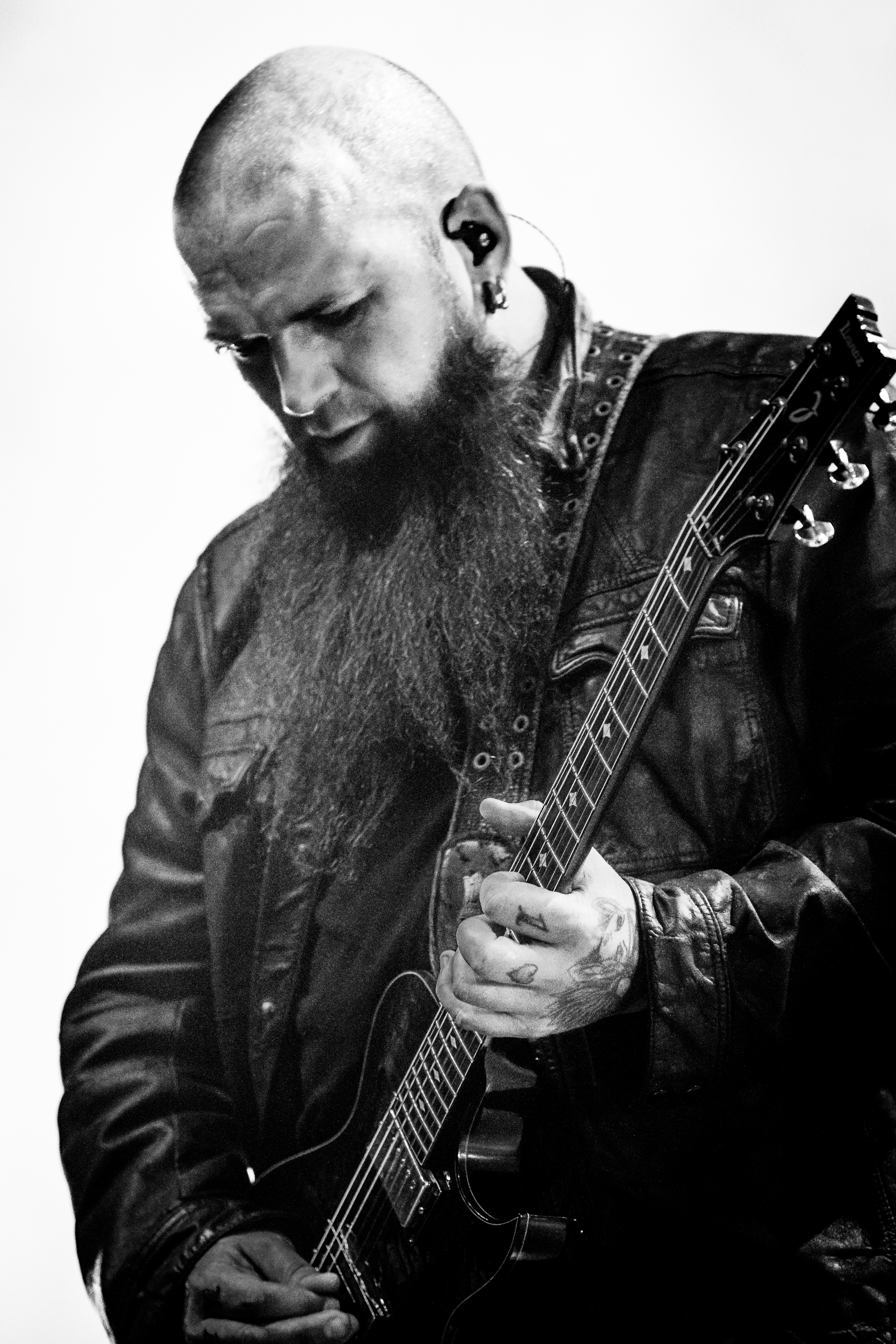 Three Days Grace - Rock am Ring 2015